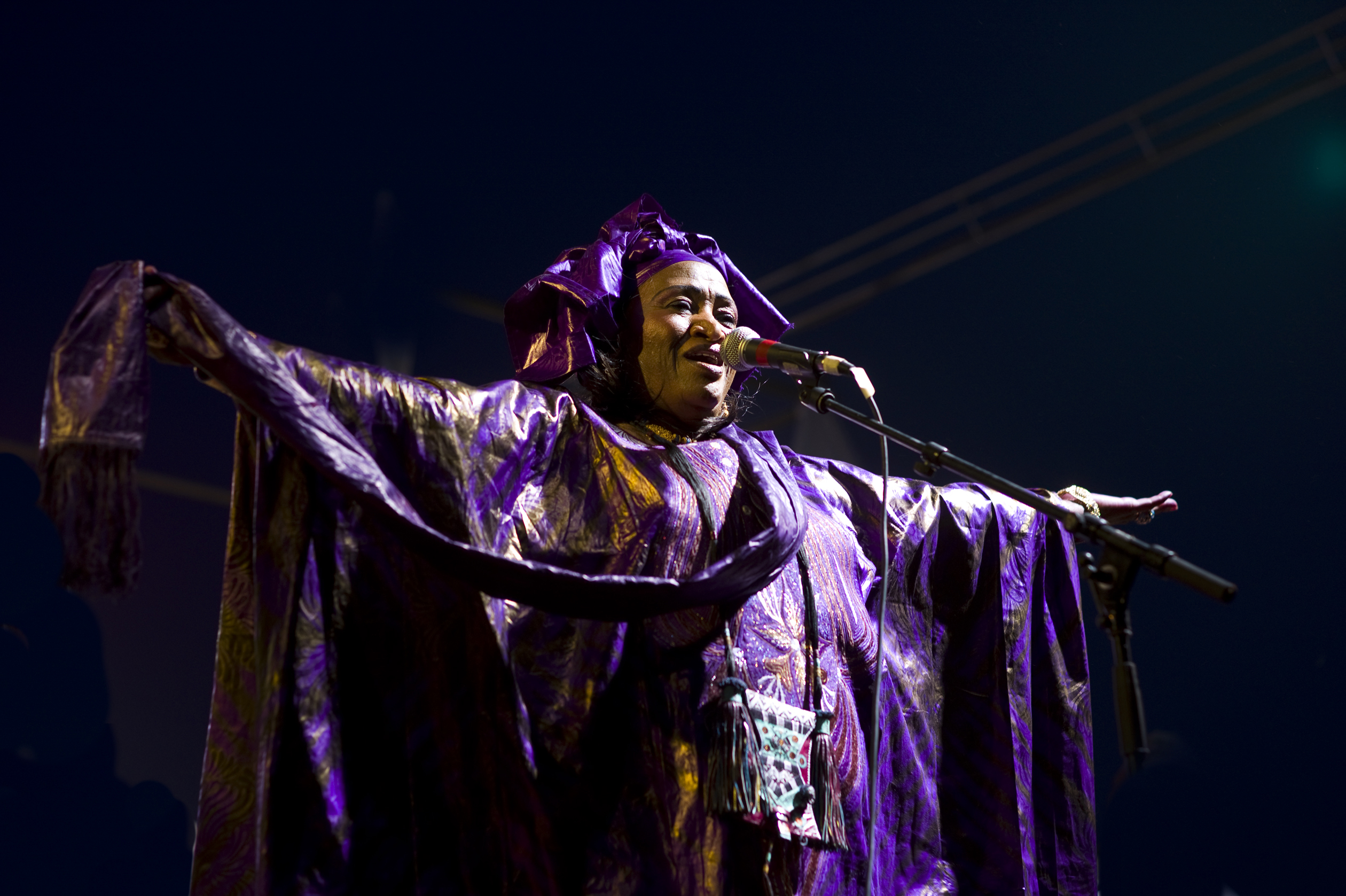 Khaira Arby at the Festival au Desert near Timbuktu, Mali 2012. Khaira Arby is the reigning queen of song in Timbuktu, Mali. She's been writing and singing in the indigenous languages of her Sahara Desert region — Sonrhai, Tamaschek, Bambara, Arabic — for decades. Her robust voice, roiling grooves and direct lyrics, often addressing sensitive issues, have made her a legend in her own time.